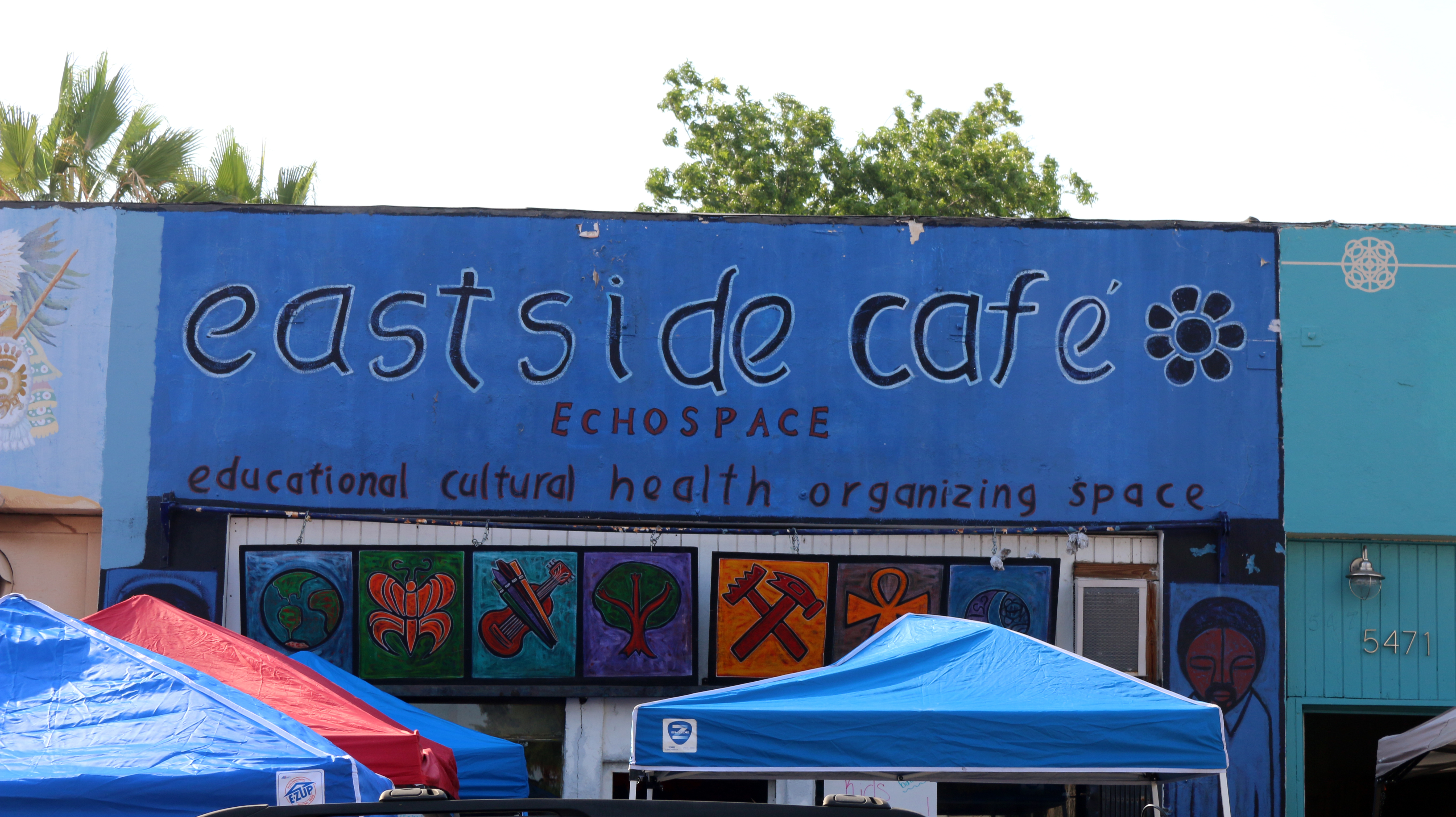 Exterior of Eastside Cafe in El Sereno, CA